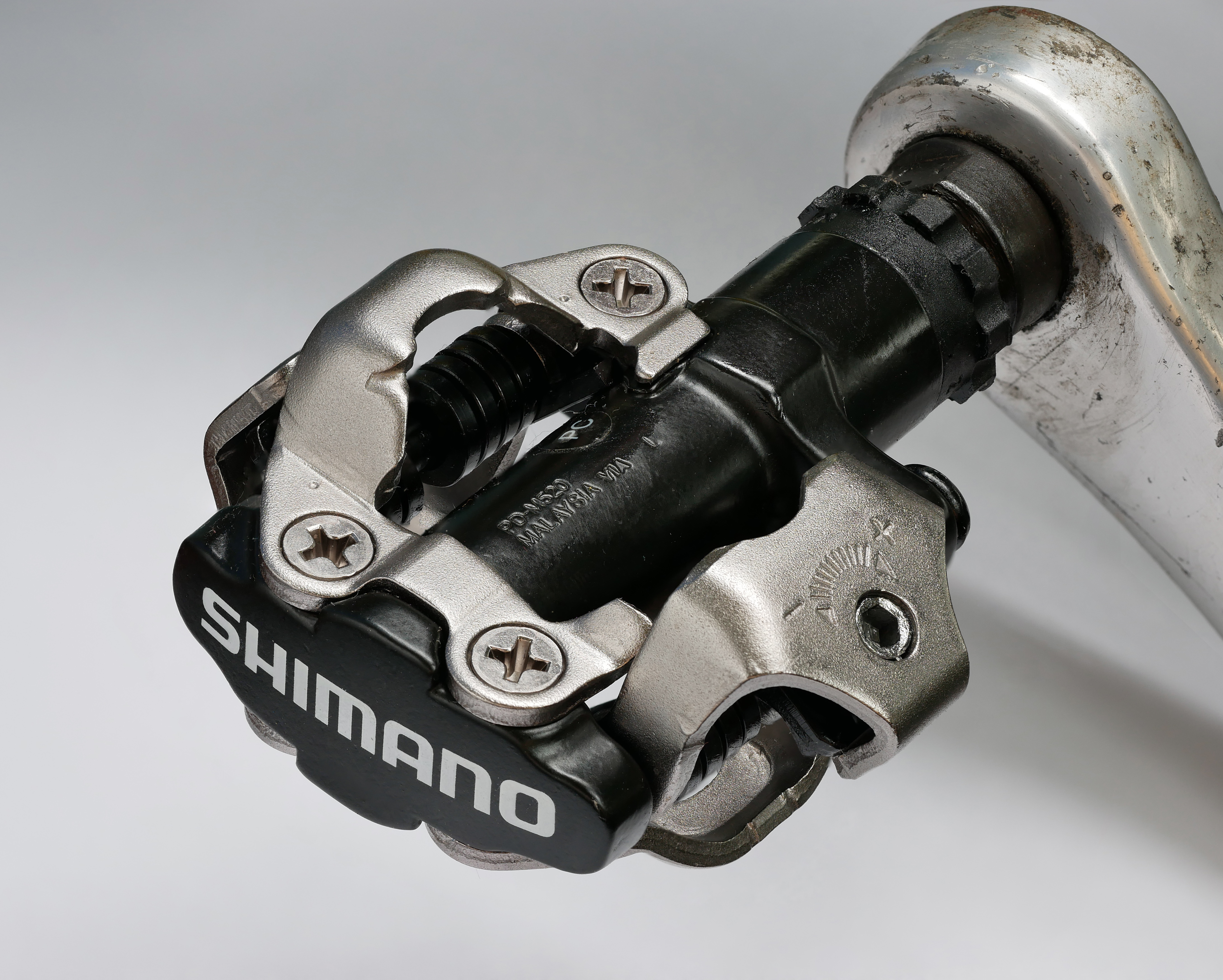 Shimano SPD pedal PD-M520